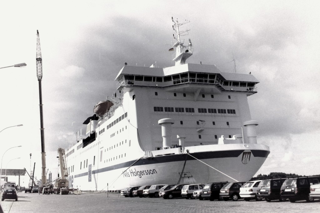 Template:D1e